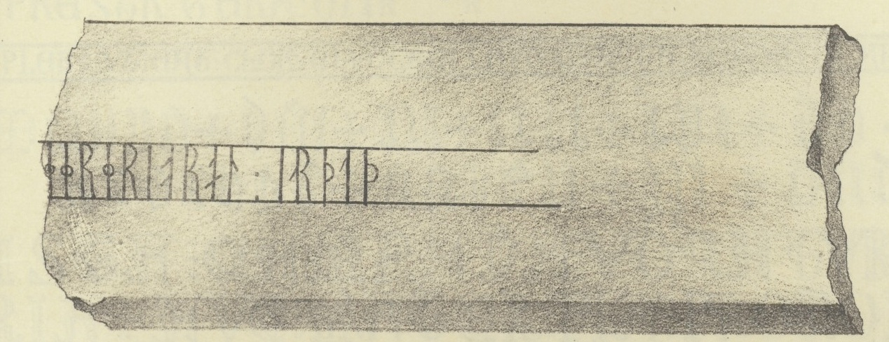 Drawing of runic inscription on tombstone from Hafslo stave church, Sogn og Fjordane, Norway, c. 1300. The inscription reads: "...er er ioron : iarþaþ", English translation: "Here is Jórunn buried". Tombstone now in Bergen Museum, Hordaland, Norway.